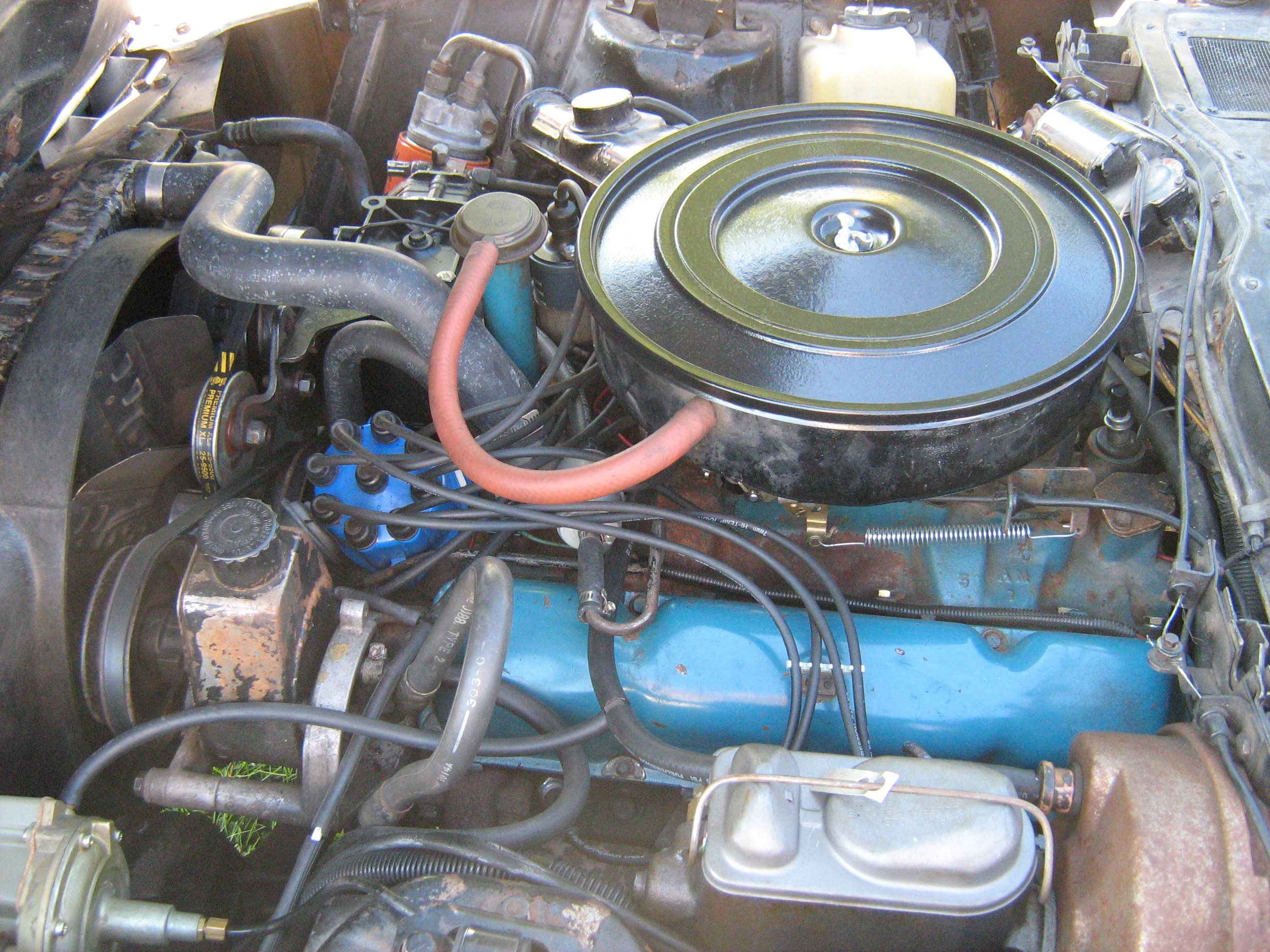 1974 Bricklin SV-1 sports car, with the standard 360 CID (5.9 L) V8 engine and four-speed manual transmission supplied by American Motors Corporation (AMC).